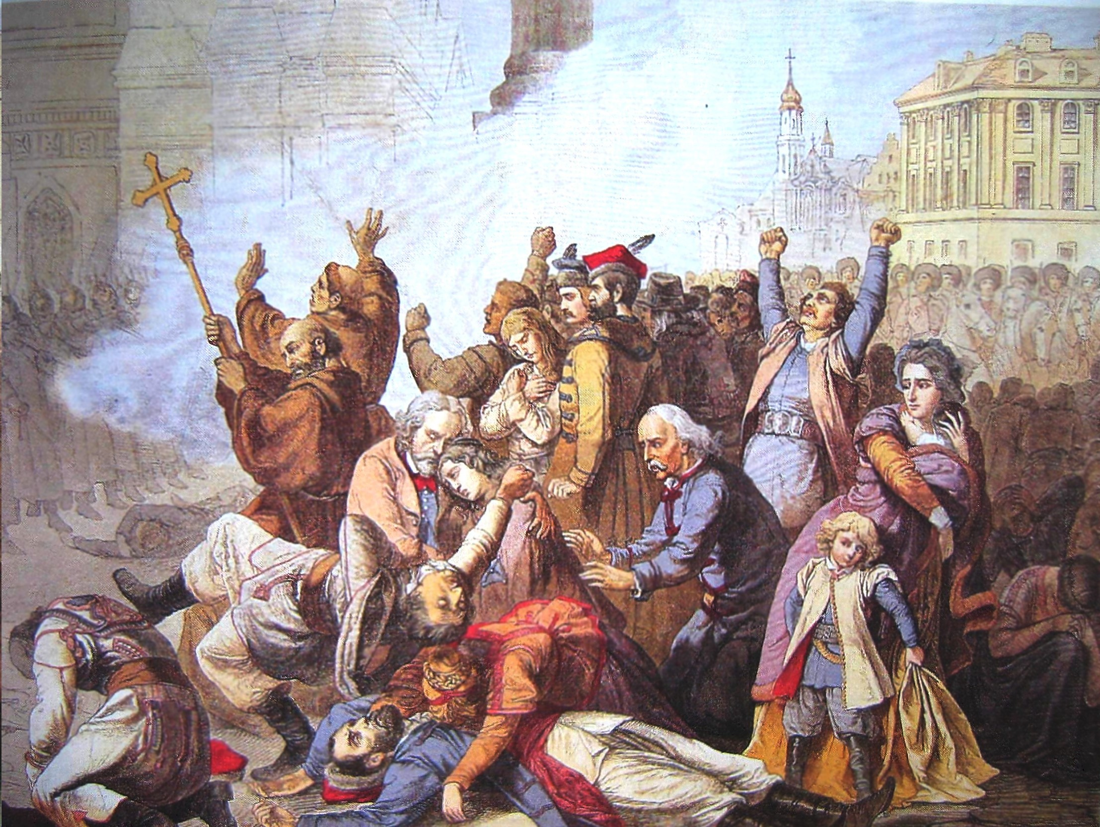 Russian army fires into Polish patriots Warsaw 1861. A print inspired by a painting by Tony Robert-Fleury - Massacre des polonais à Varsovie, 8 avril 1861 (1866)